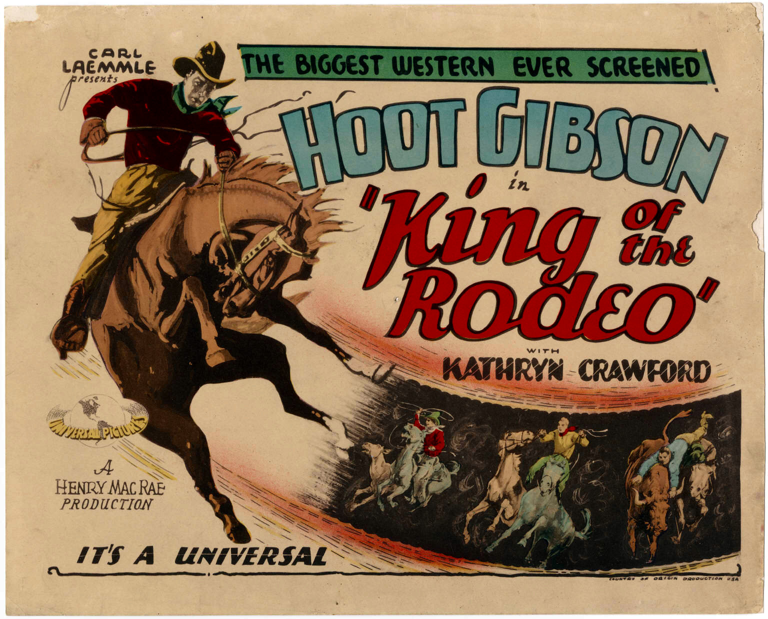 Poster of King of the Rodeo (1929) starring Hoot Gibson